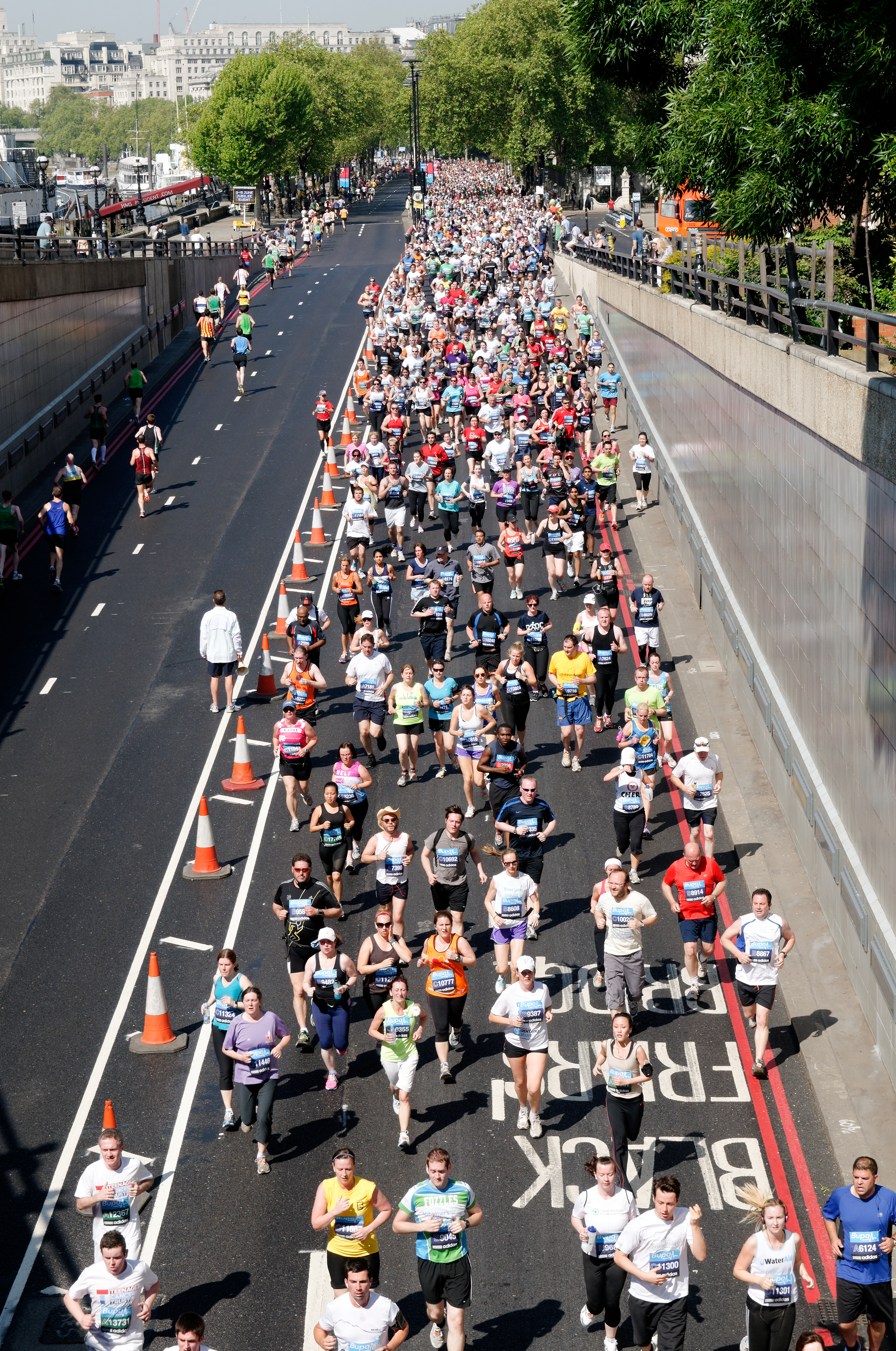 The Bupa London 10,000 Run 2012 viewed from the Blackfriars Bridge.